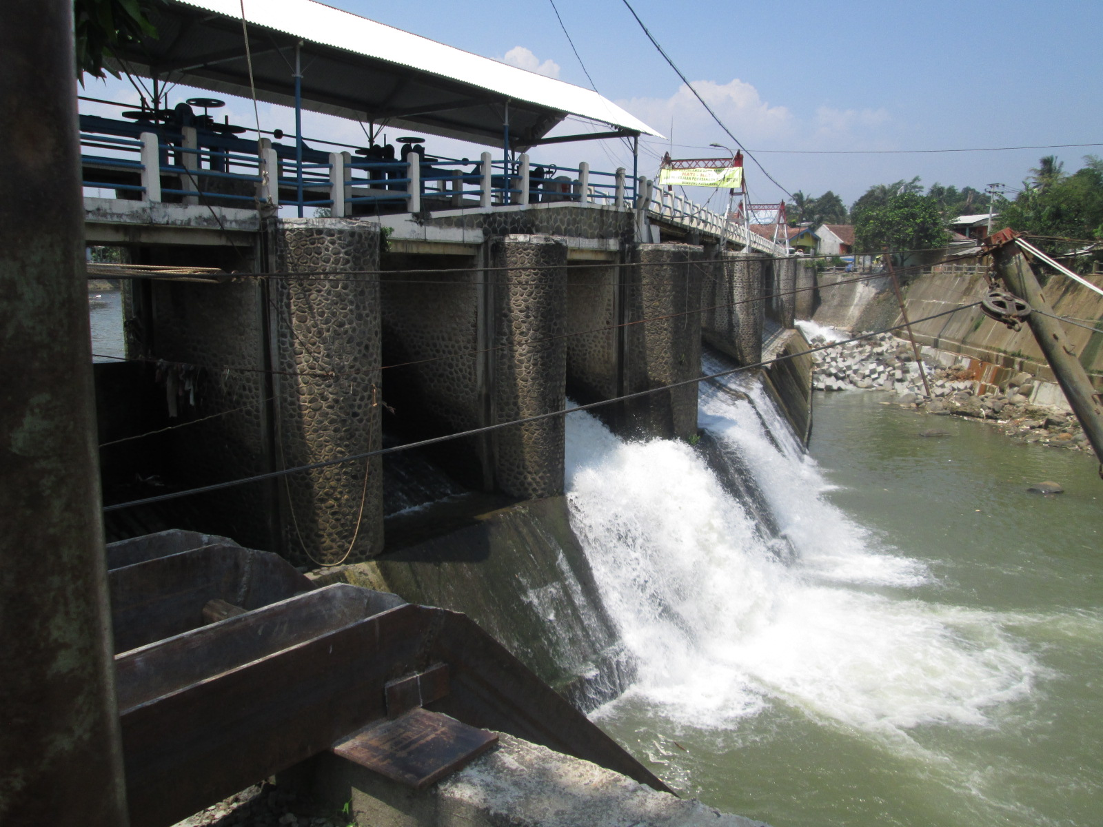 The western gate of Katulampa Floodgate in Katulampa, Bogor